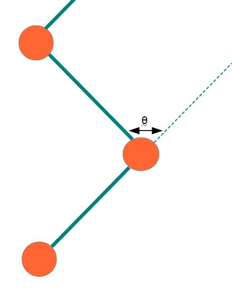 Bond angle for calculating and Kuhn length